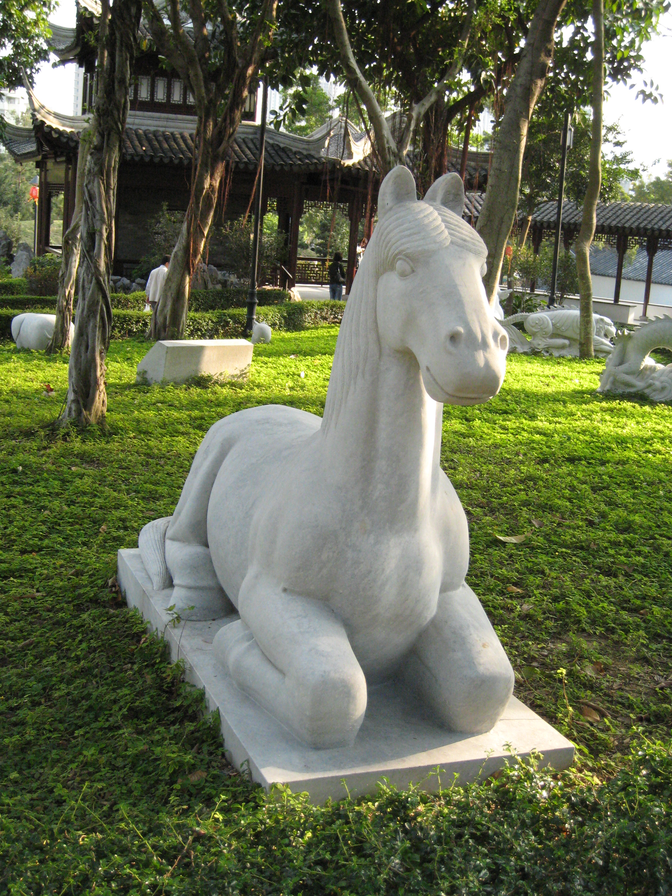 The Horse statue is one of the 12 Chinese zodiac portrayed in the Kowloon Walled City Park in Kowloon City, Hong Kong.